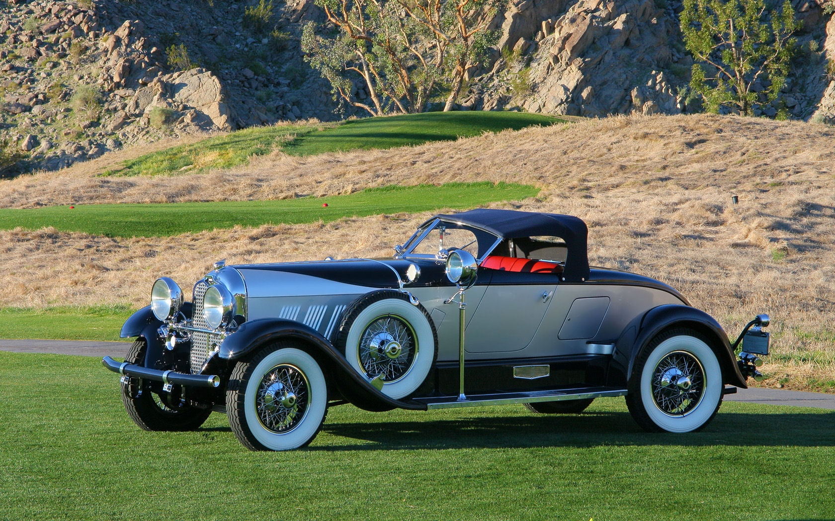 2011 Desert Classic Best-of-Show winner at La Quinta